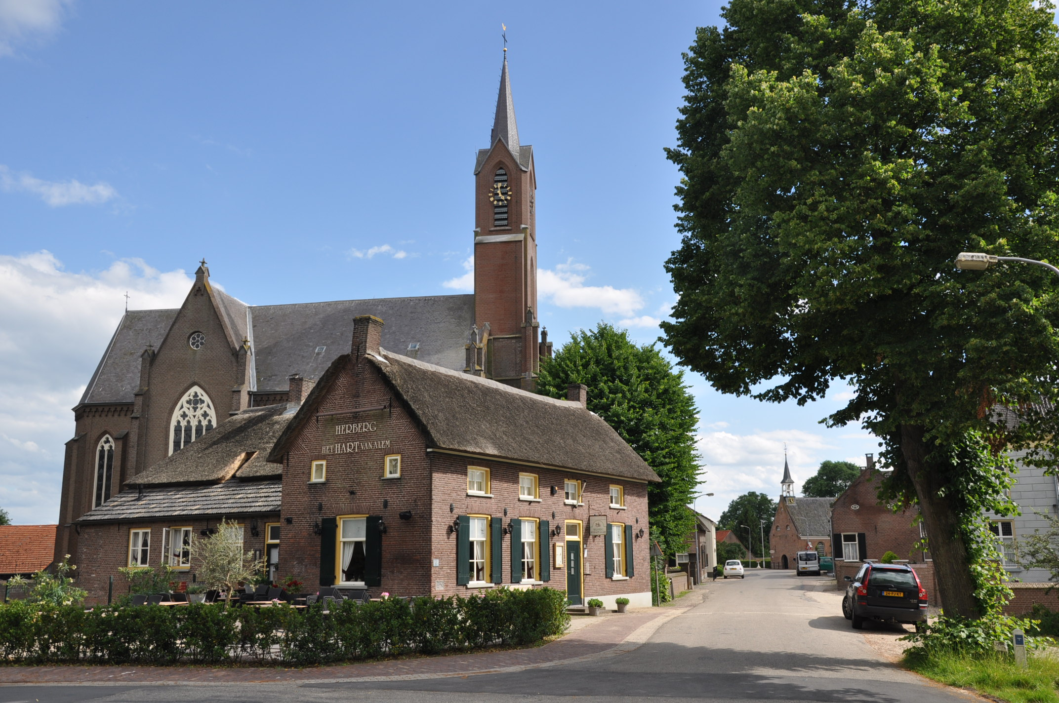 Main street (St. Odradastraat) in Alem (municipality Maasdriel, province Gelderland, Netherlands). In the foreground a pub "Het Hart van Alem"; behind it the Saint Hubertus Church, and in the distance on the right the former 16th century Reformed Church which is currently the Dutch Tile Museum.